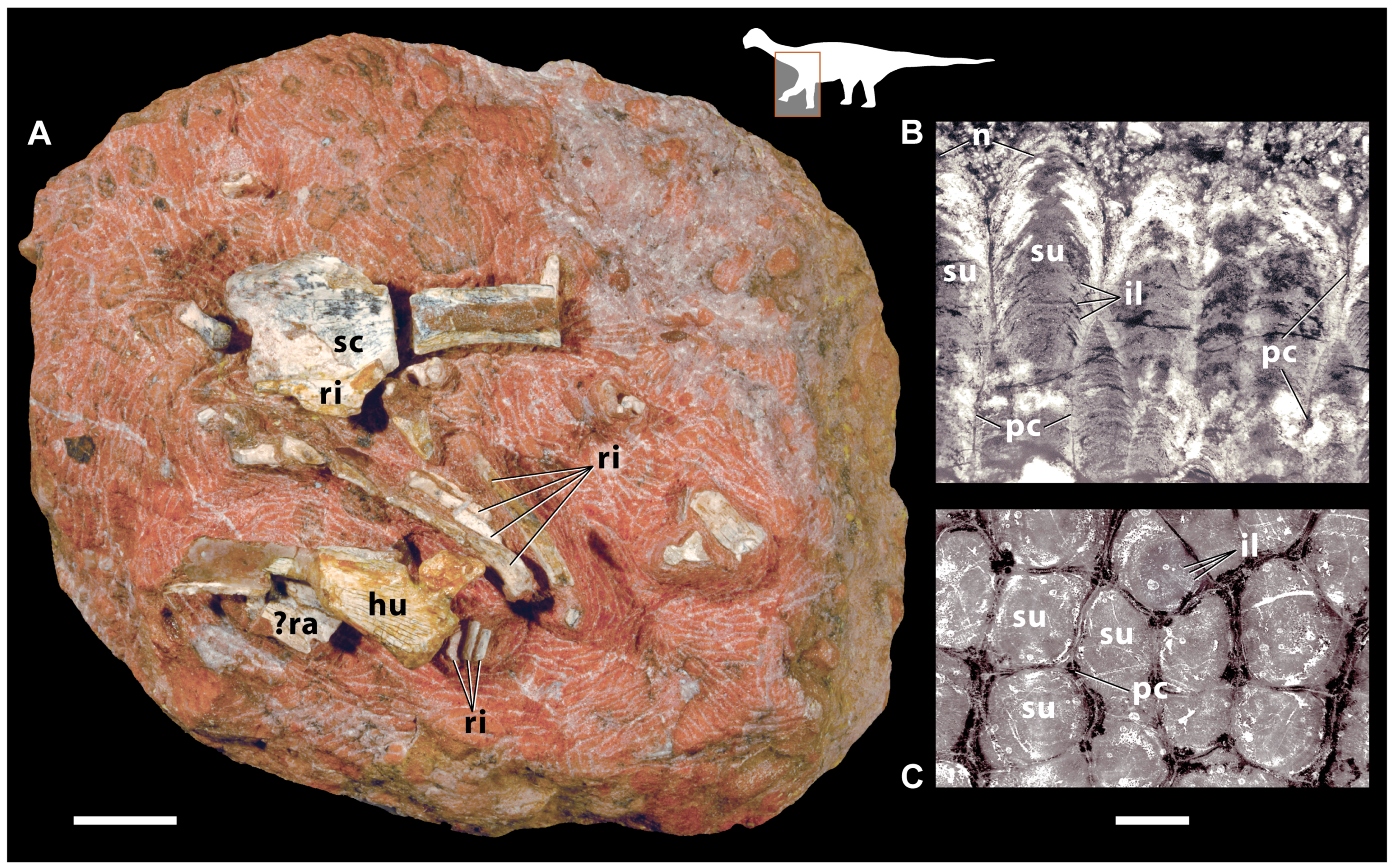 Titanosaur sauropod hatchling and egg. (A) Photograph of block GSI/GC/2904, showing elements of the anterior thorax and forelimb of the hatchling. The images at right are radial (B) and tangential (C) sections through an eggshell fragment removed from titanosaur egg 3 (from block GSI/GC/2905). External is towards the top in (B). hu, Humerus; il, incremental lines; n, node; pc, pore canal; ra, radius; ri, rib; sc, scapula; su, shell unit. Scale bar equals 2 cm for (A) and 500 µm for (B and C).